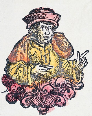 Arnobius of Sicca (Greek: Ἀρνόβιος ἐκ Σίκκης; died c. 330) was an Early Christian apologist, during the reign of Diocletian (284–305).